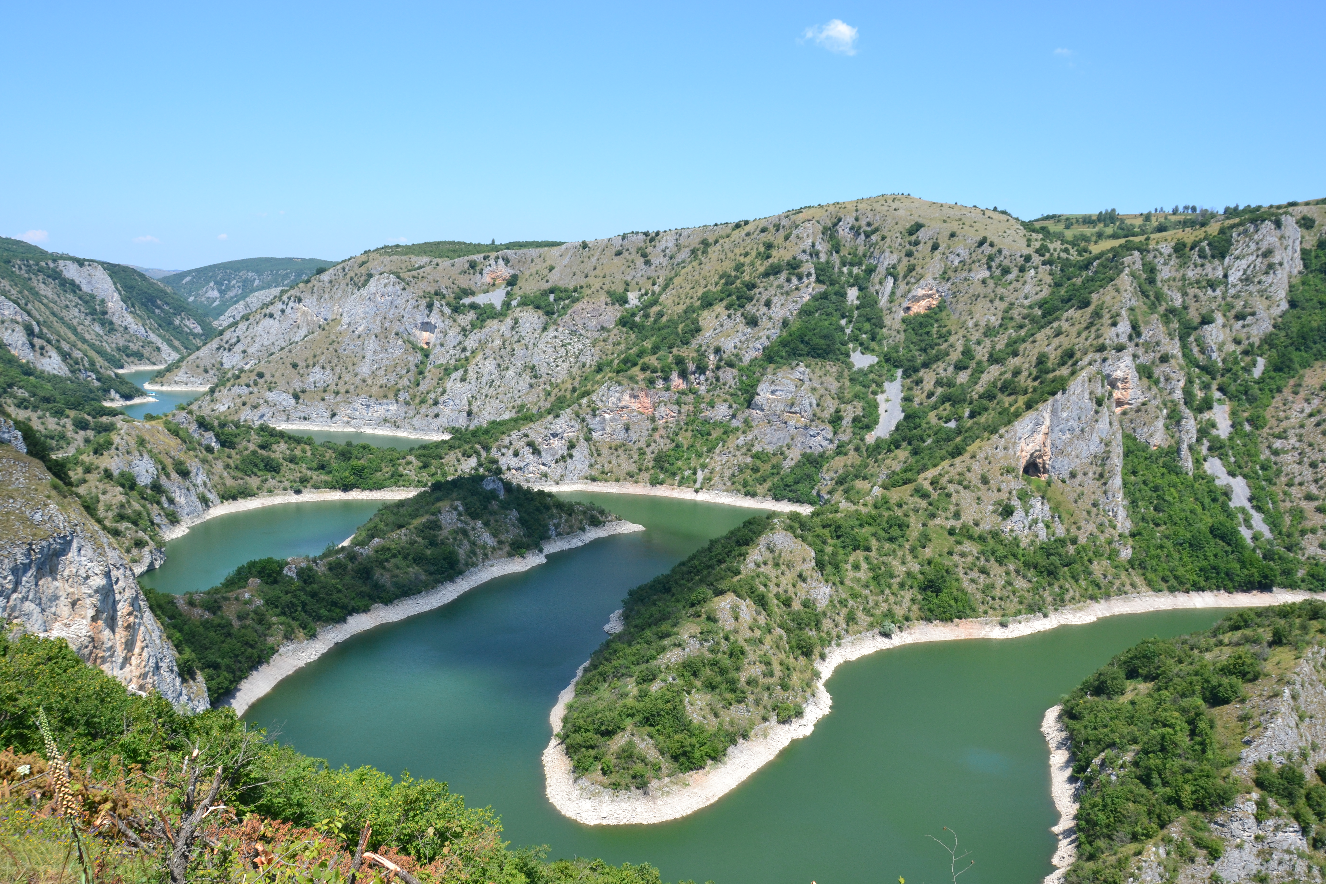 River Uvac in Serbia Srpski (latinica): Reka Uvac , Srbija